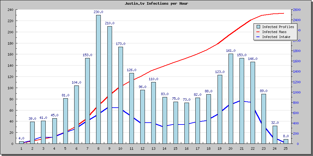 Graph of Justin.tv XSS worm which impacted 2525 profiles in a 24 hour period.